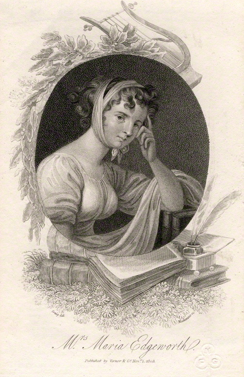 Portrait of Maria Edgeworth, line and stipple engraving